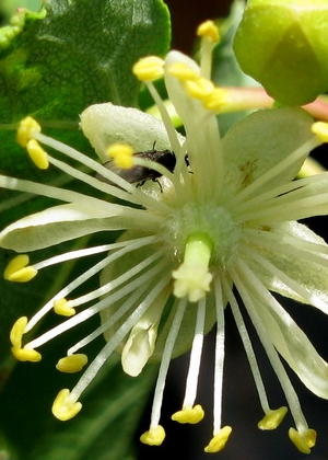 Flower of Tilia nasczokinii with pollinator.